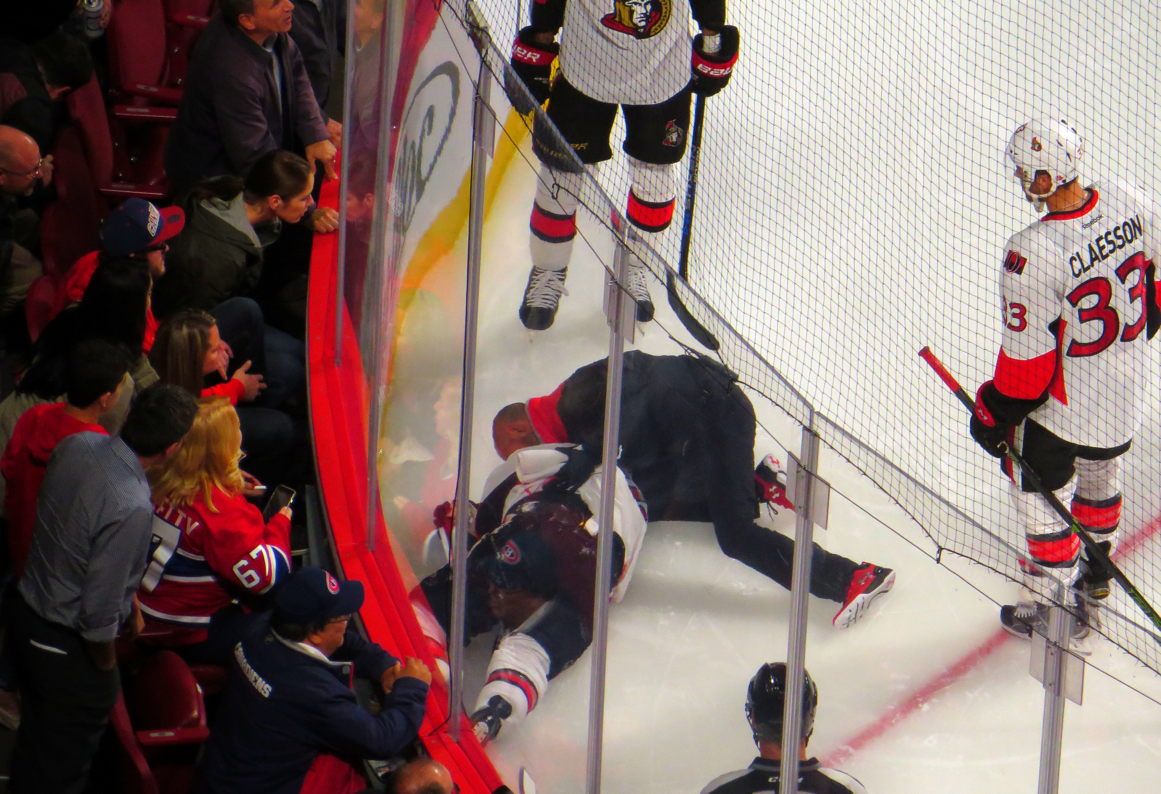 Injury, Montreal Canadiens 3, Ottawa Senators 4, Centre Bell, Montreal, Quebec